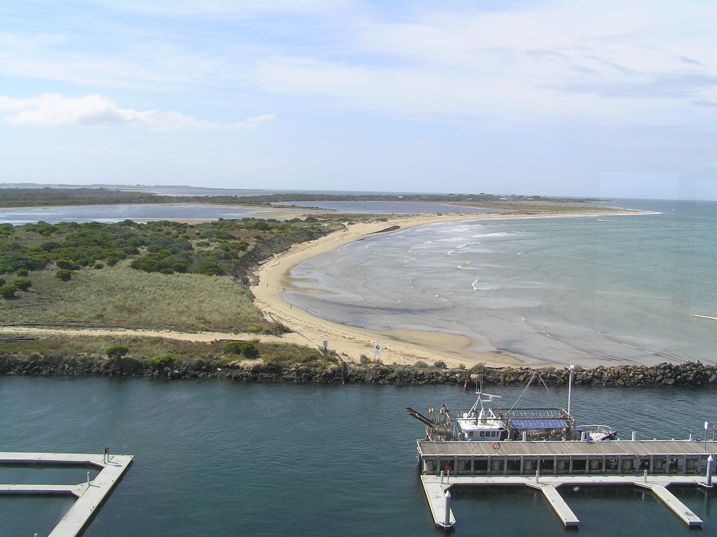 View looking north-east across Queenscliff Harbour, along Sand Island's eastern beach, to Swan Island in the background.